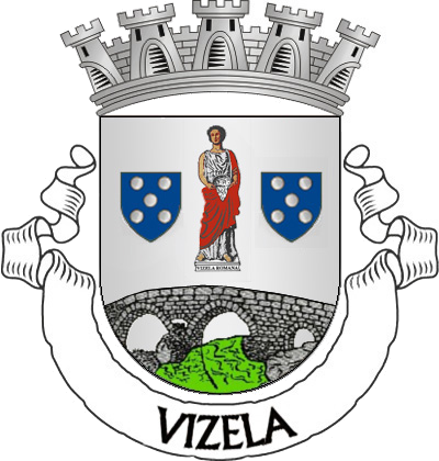 Crest of Vizela municipality (Portugal) Made by User:Brian Boru, based on a crest of Sérgio Horta